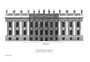 The south front of Chatsworth House in Derbyshire, England from Colen Campbell's Vitruvius Britannicus.